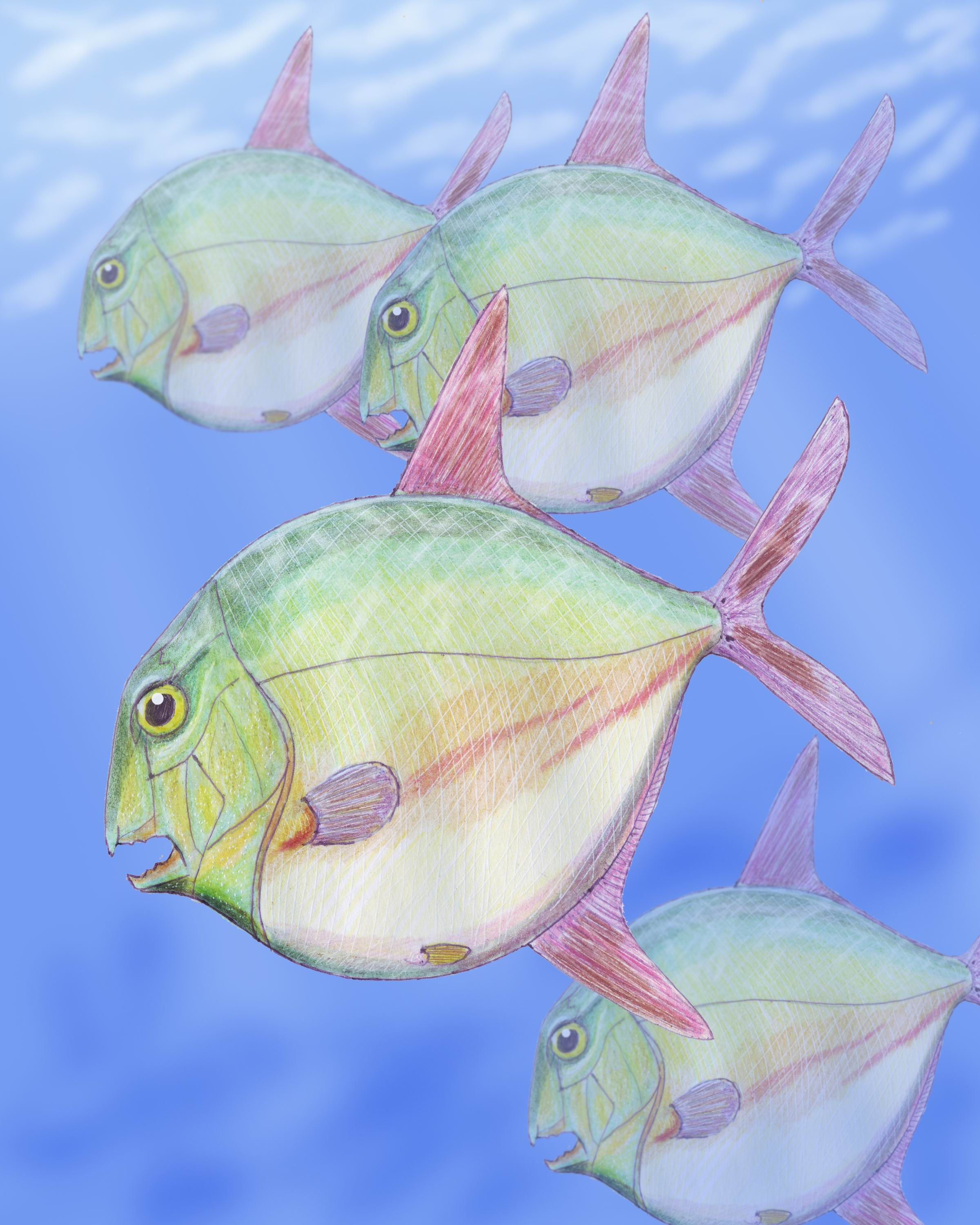 Gyrodus hexagonus from the Upper Jurassic of Germany